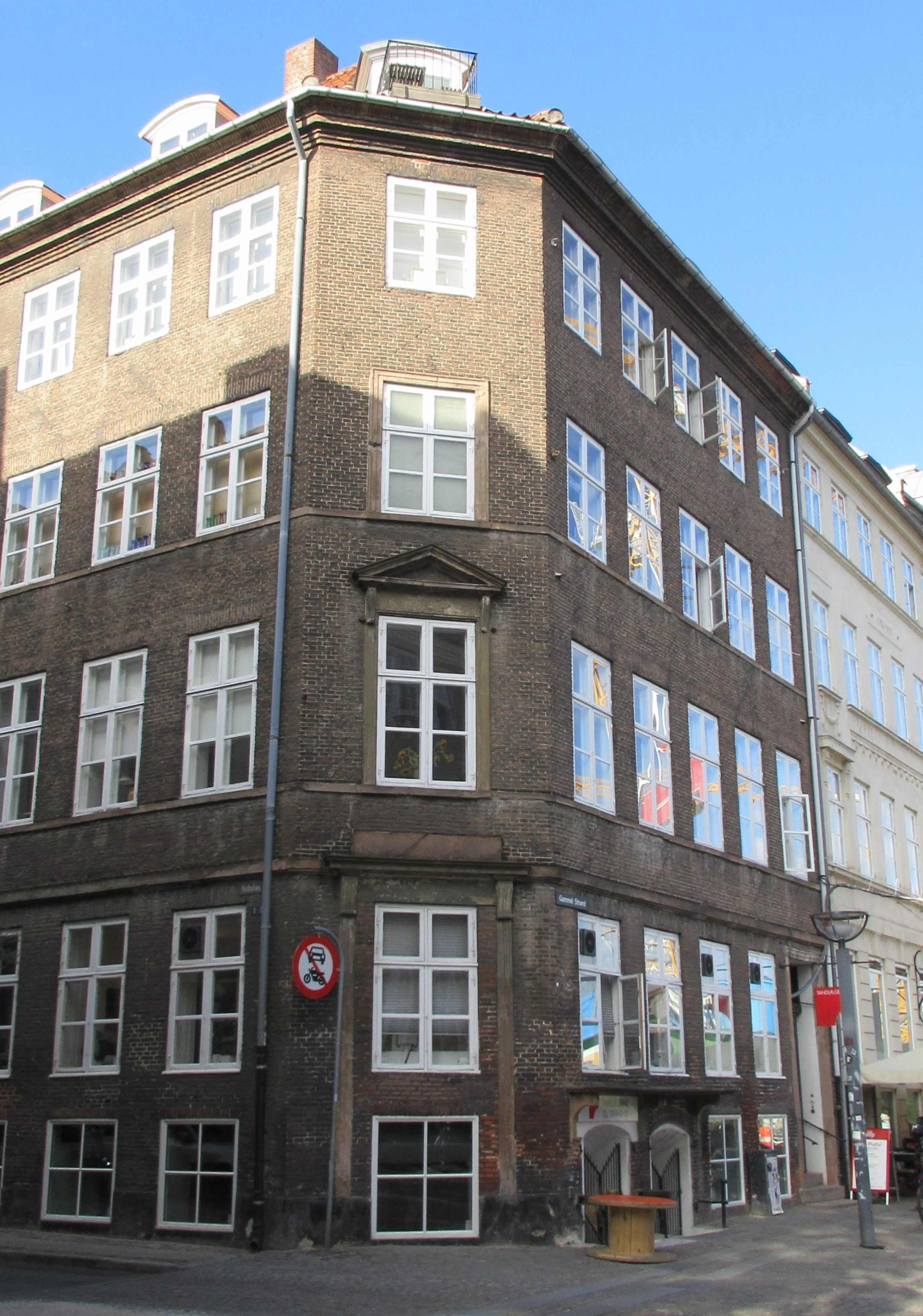 Gammel Strand 52 in Copenahgen, Denmark